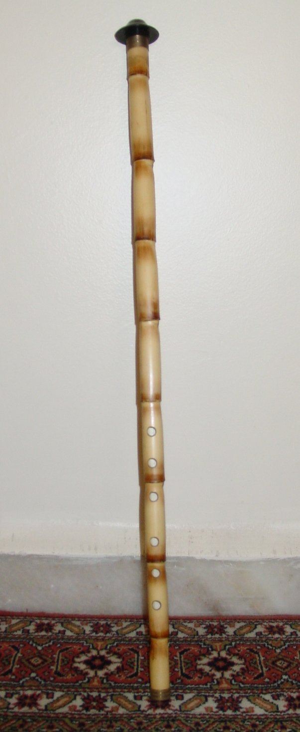 My Ney :)